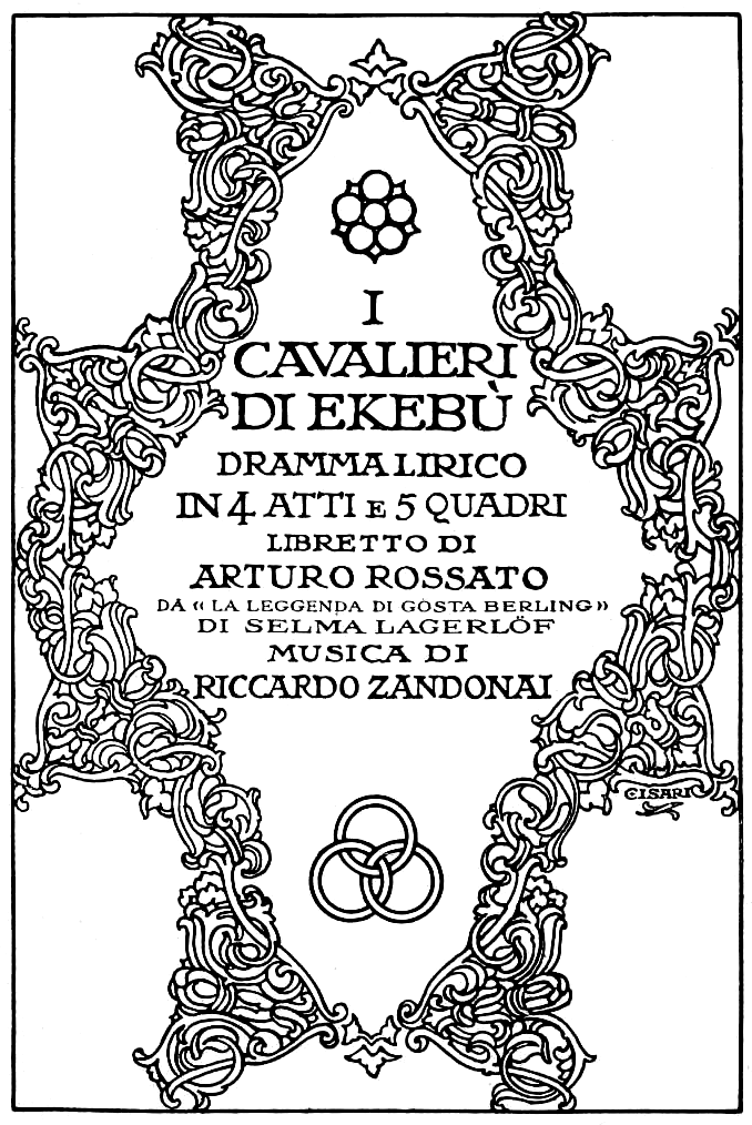 Riccardo Zandonai - I cavalieri di Ekebù - title page of the libretto - Milan 1925